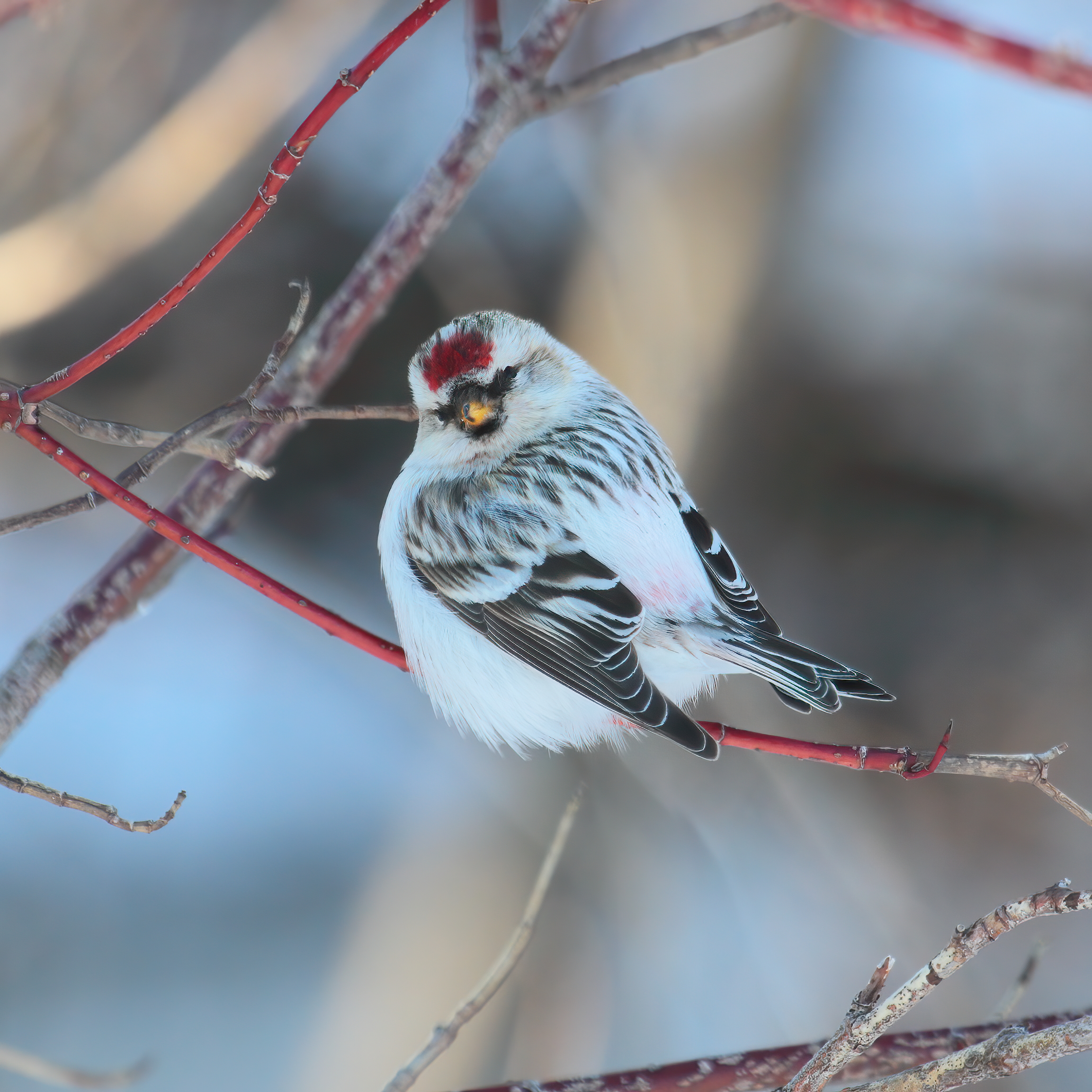 Arctic Redpoll, Cap Tourmente National Wildlife Area, Quebec, Canada.